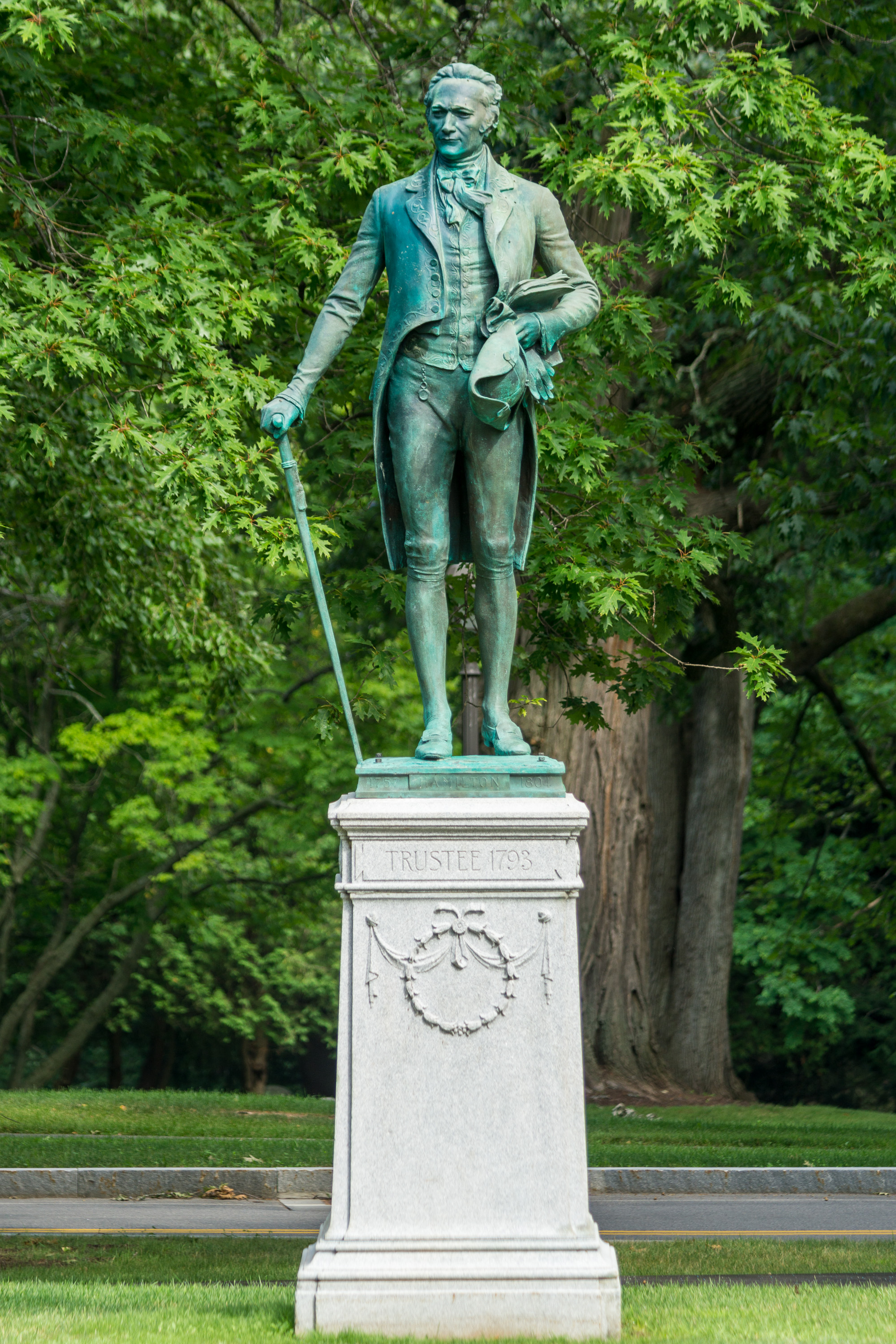 Statue of namesake and trustee Alexander Hamilton at Hamilton College, New York. Sculptor: George Thomas Brewster (1862-1943). Dedicated June 17, 1918. Foundry: Gorham Manufacturing Company.